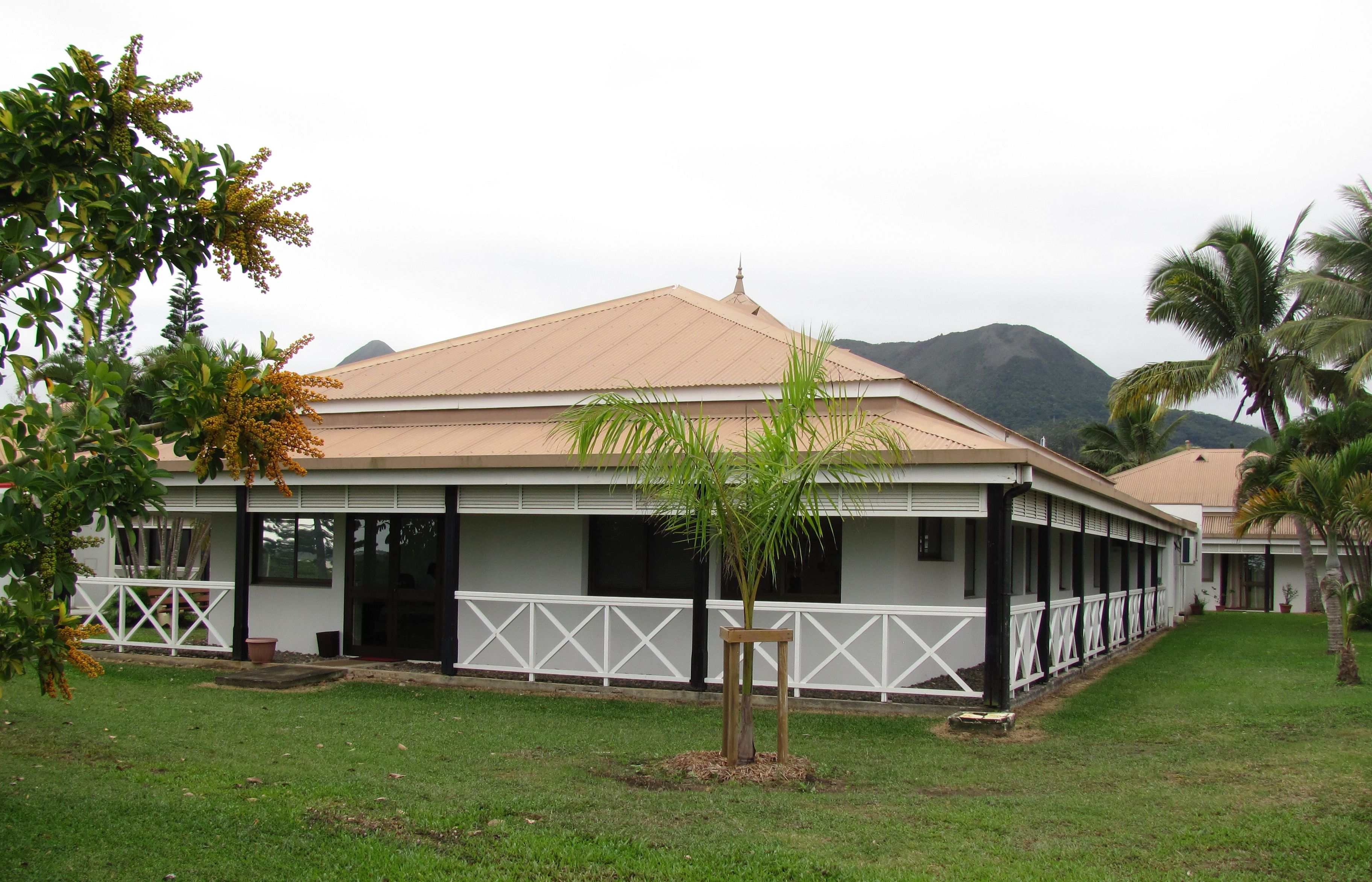 Town Hall, Le Mont-Dore, New Caledonia